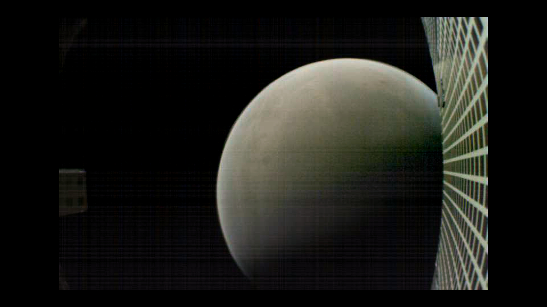 MarCO-B, one of the experimental Mars Cube One (MarCO) CubeSats, took this image of Mars from about 4,700 miles (6,000 kilometers) away during its flyby of the Red Planet on Nov. 26, 2018. MarCO-B was flying by Mars with its twin, MarCO-A, to attempt to serve as communications relays for NASA's InSight spacecraft as it landed on Mars. This image was taken at about 12:10 p.m. PST (3:10 p.m. EST) while MarCO-B was flying away from the planet after InSight landed. The MarCO and InSight projects are managed for NASA's Science Mission Directorate, Washington, by JPL, a division of the California Institute of Technology, Pasadena.